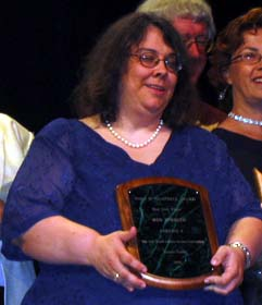 Wen Spencer, accepting the Campbell Award at Torcon 3, the World Science Fiction Convention (Worldcon). Photo taken at the Hugo Award ceremony.